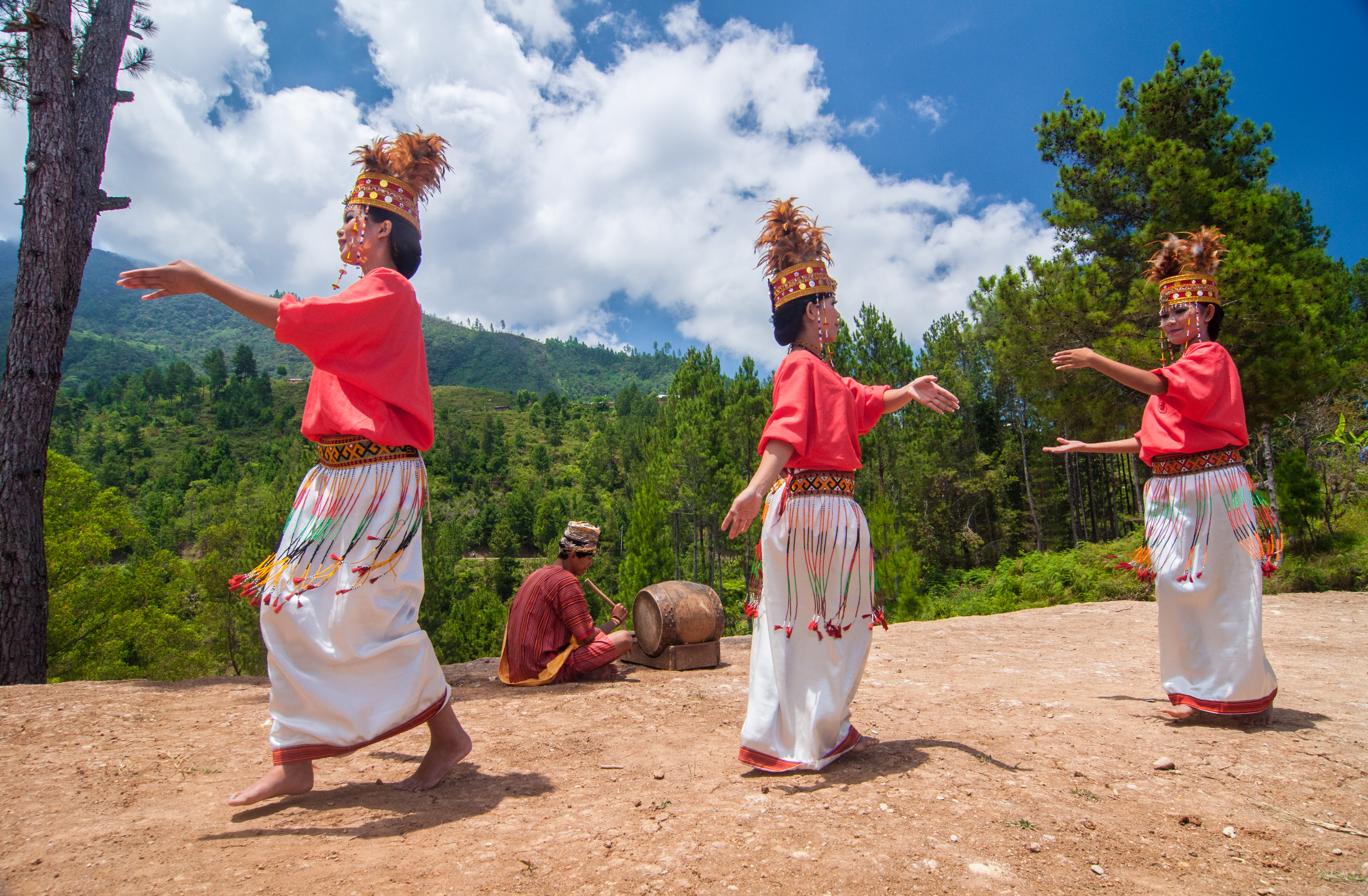 Tarian Pagellu or Pagellu dance is Toraja Cultural dance